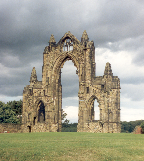 Gisborough Priory, East end